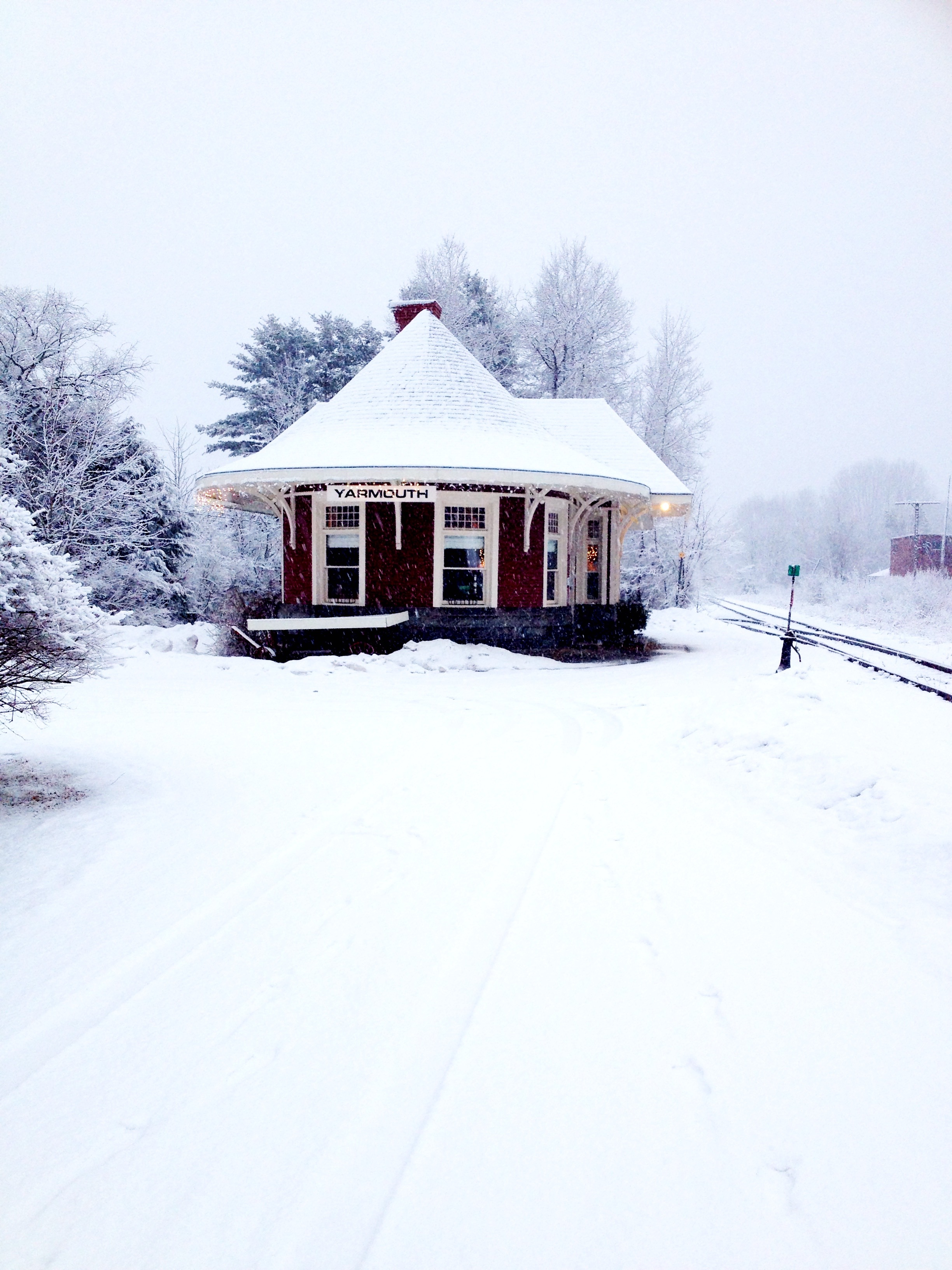 Grand Trunk Railway Station, Yarmouth, Maine.